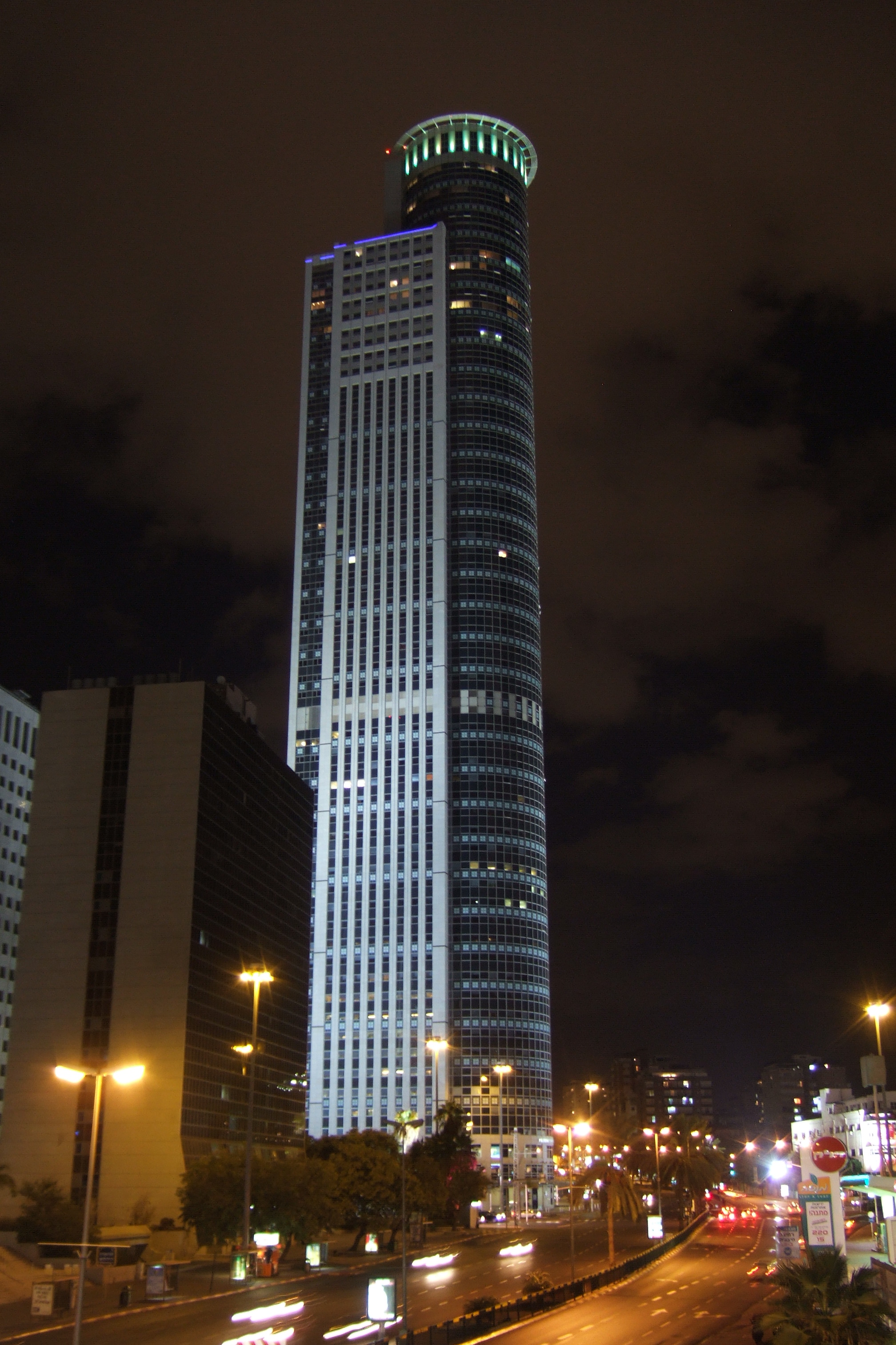 City Gate (Moshe Aviv) Tower in Ramat Gan at night, 2008